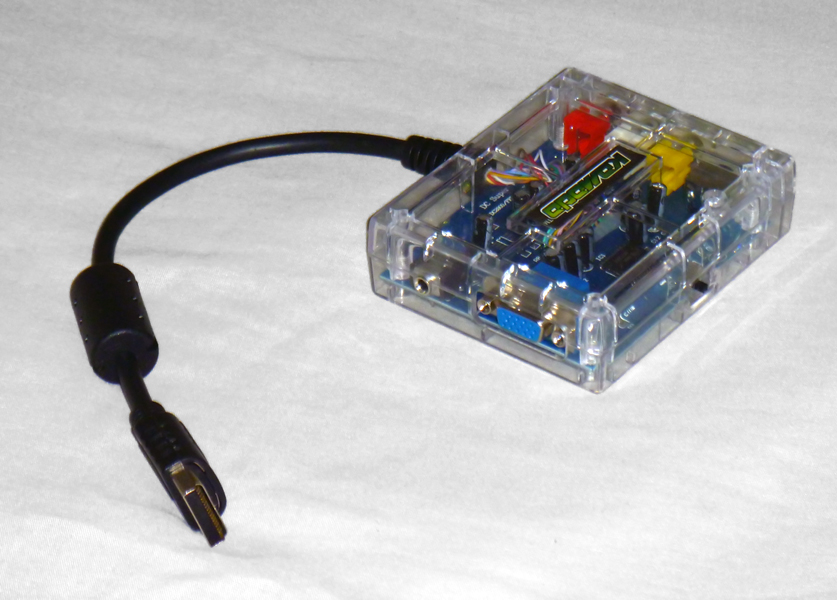 Dreamcast VGA adapter, "Retro-Bit" brand.